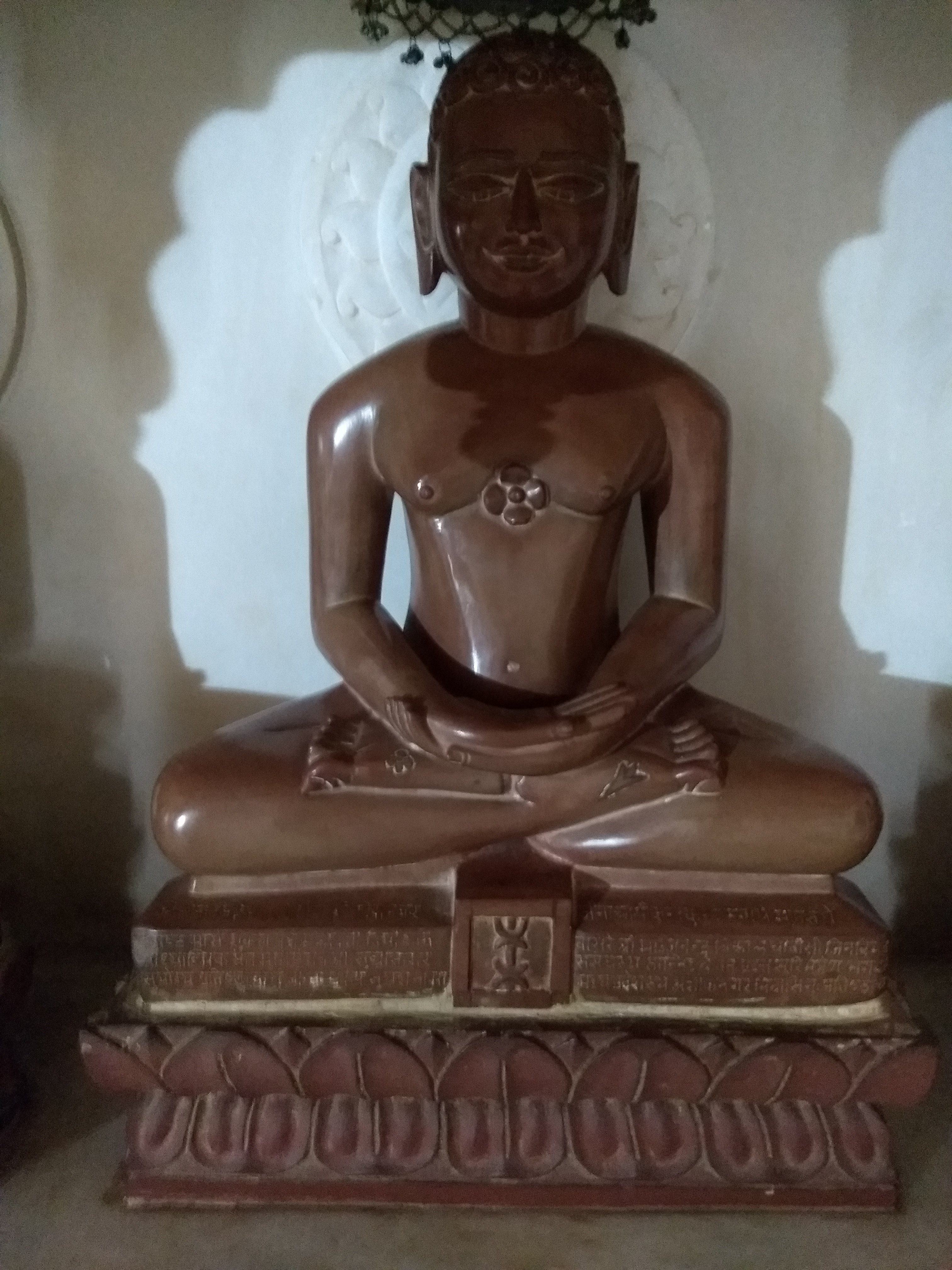 Jain statues in Anwa, Rajasthan